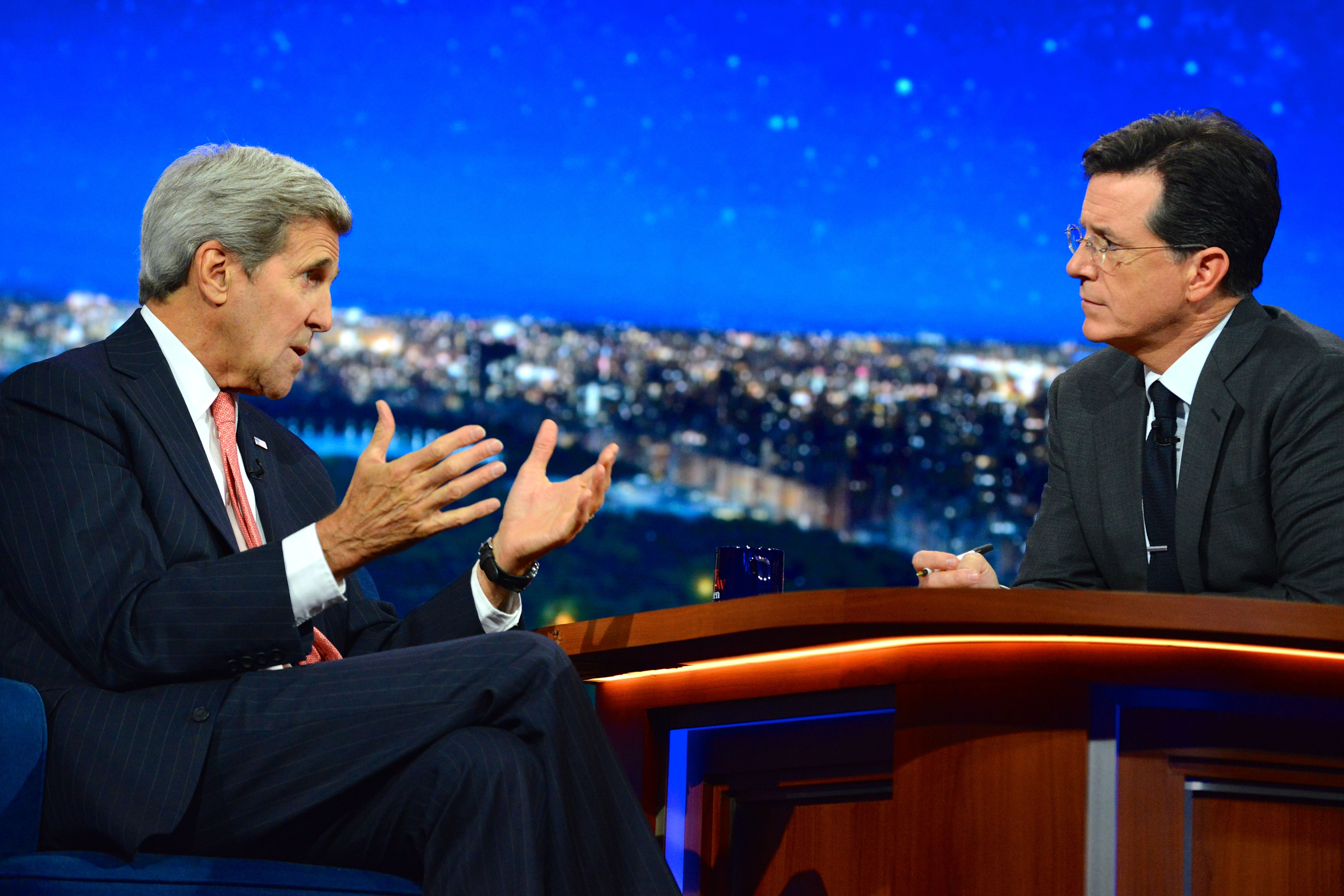 U.S. Secretary of State John Kerry makes an appearance on The Late Show with Stephen Colbert to discuss global affairs in New York City on October 1, 2015. [State Department photo/ Public Domain]